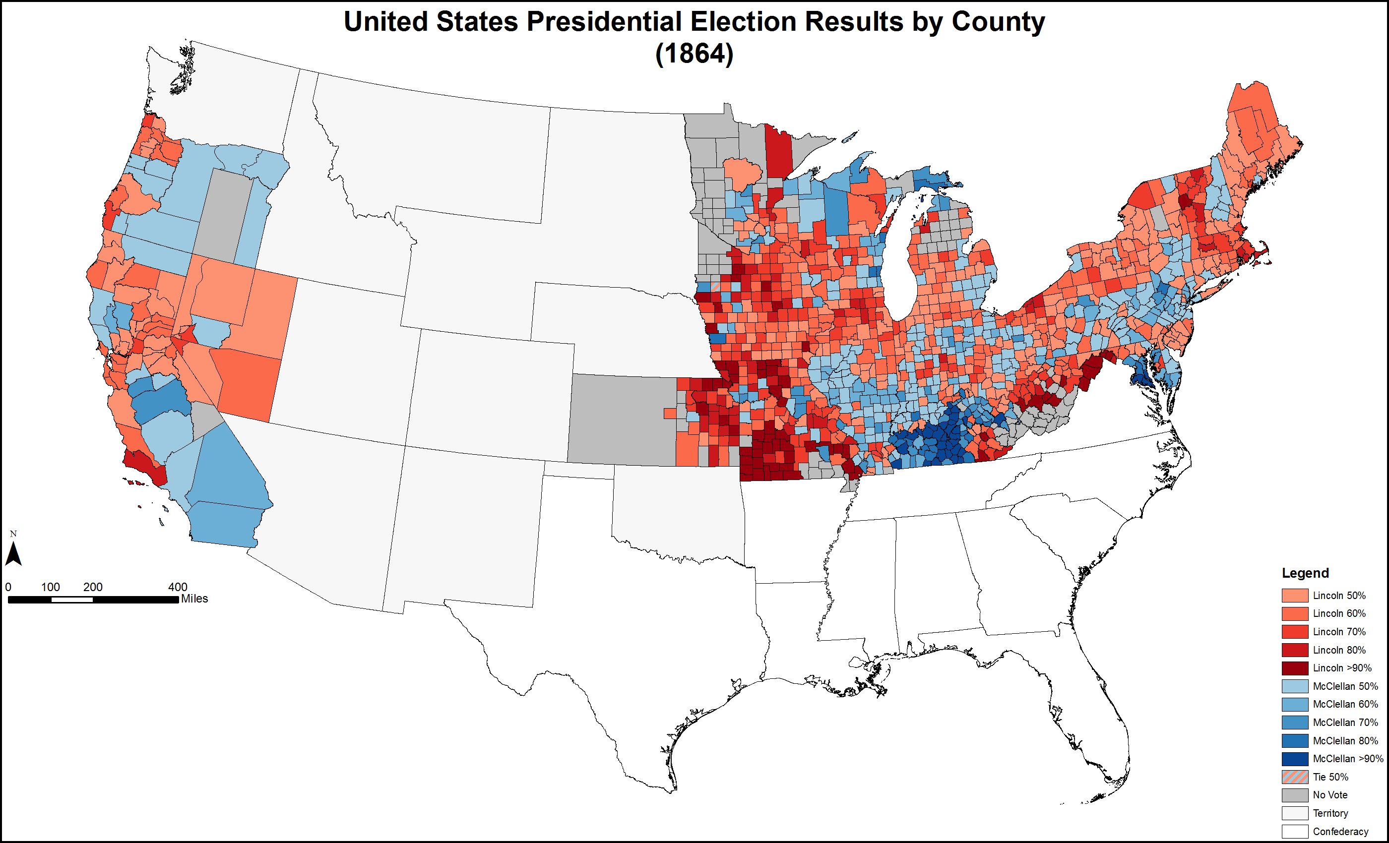 Presidential election results by county (1864). Colors based on Colorbrewer 2.0.